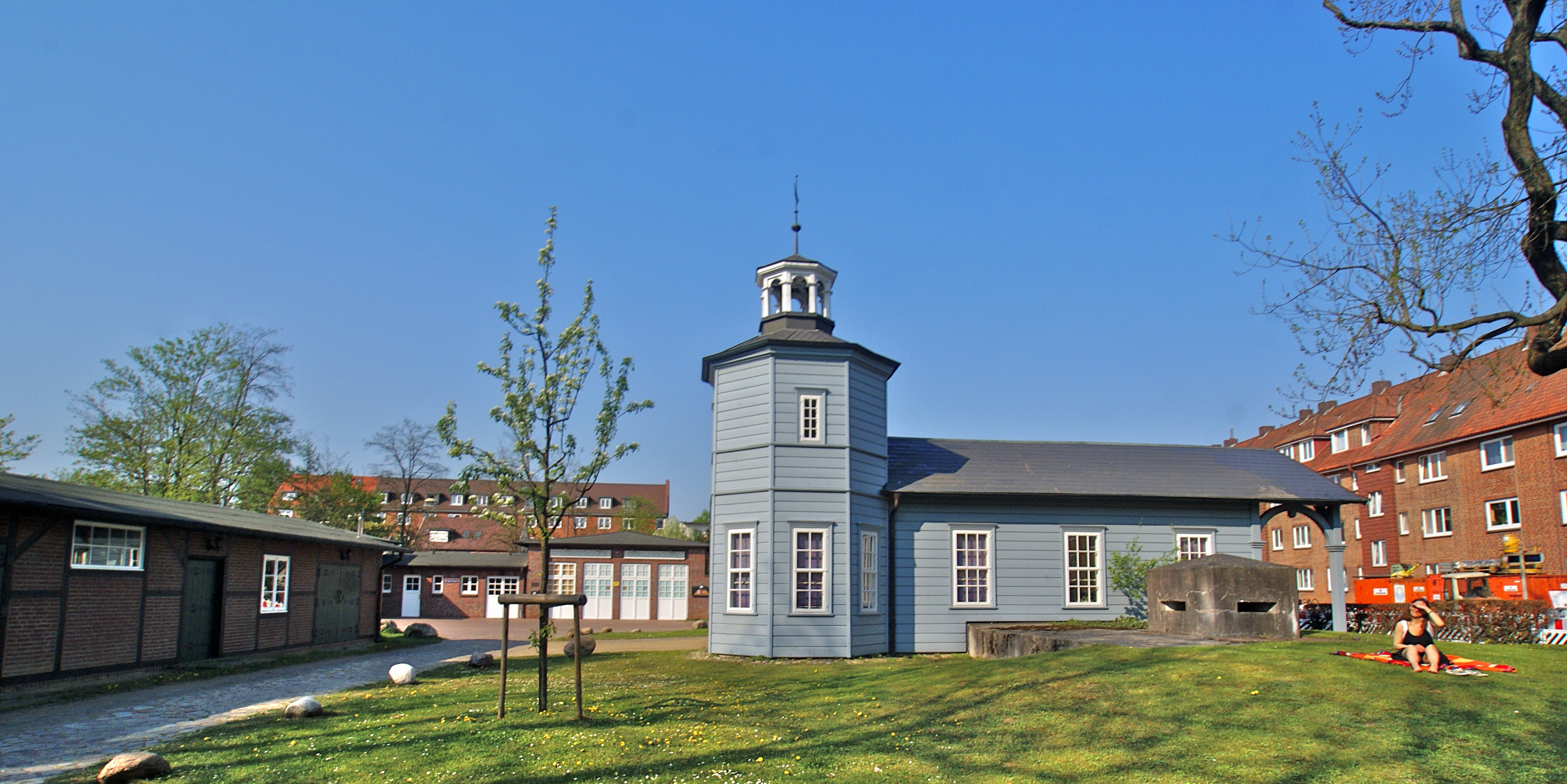 Hamburg (Bergedorf), Germany: The theatre of the Lohbrügger Bürgerbühne and the former railway station on the former railway to Hamburg track